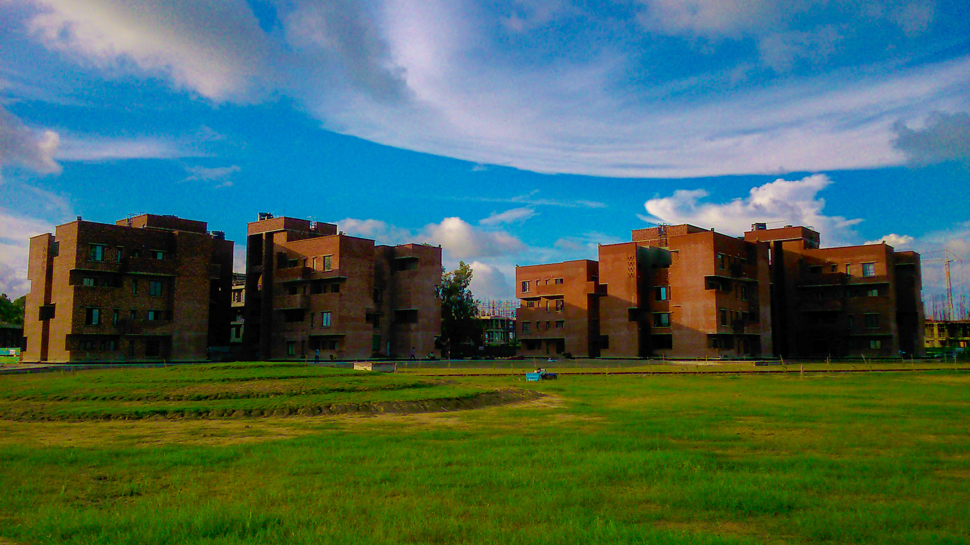 The Photo shows the exterior of the hostels of IIM Kashipur in its new campus Other information Nothing